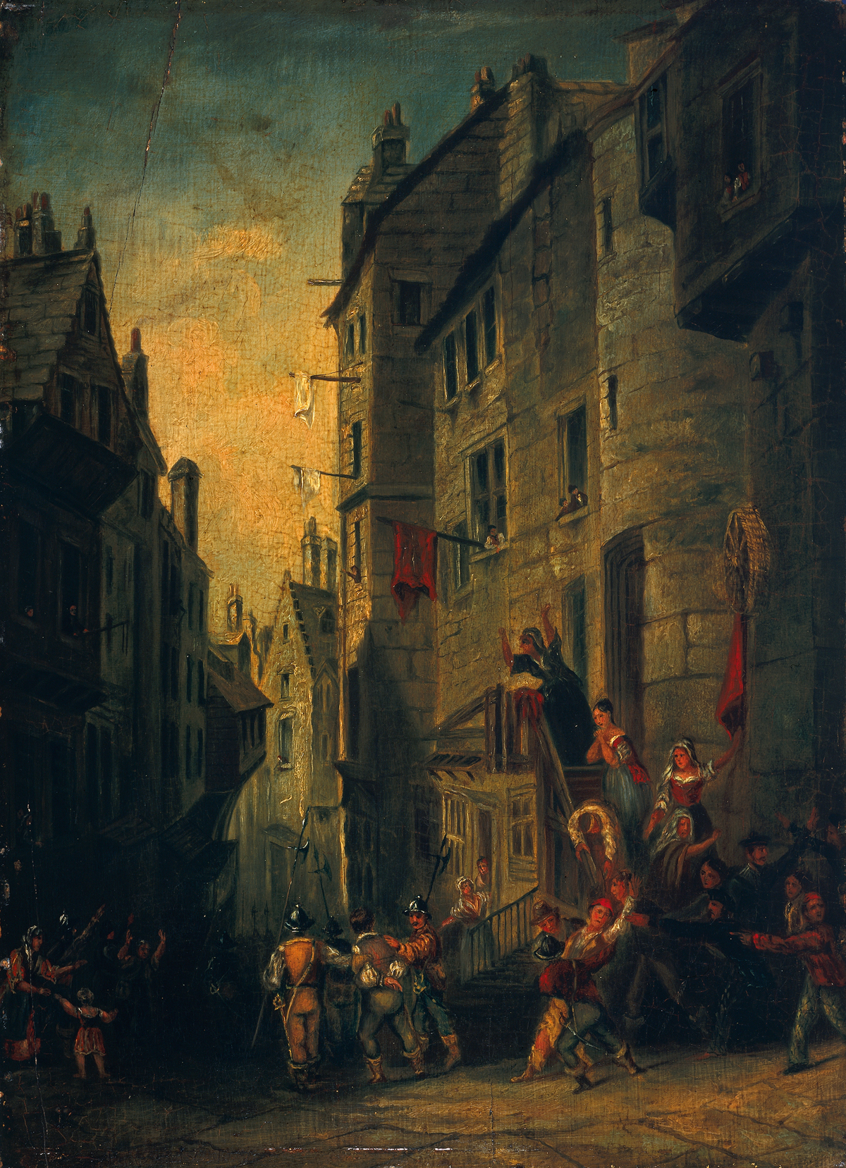 James Renwick being led to execution in the Grassmarket in 1688. Renwick was the last Covenanter to be martyred before the accession of William II secured Presbyterianism in Scotland in 1689. (Despite the accepted title of the painting, note that only one prisoner is shown.)